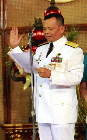 General Ricardo A. David, Jr. being sworn in as Chief of Staff of the Armed Forces of the Philippines by President Benigno Aquino III (not in photo). Tagalog: Pinanunumpa si Heneral Ricardo A. David, Jr. bilang Pinuno ng Estado Mayor (Chief of Staff) ng Sandatahang Lakas ng Pilipinas ni Pangulong Benigno Aquino III (wala sa larawan).